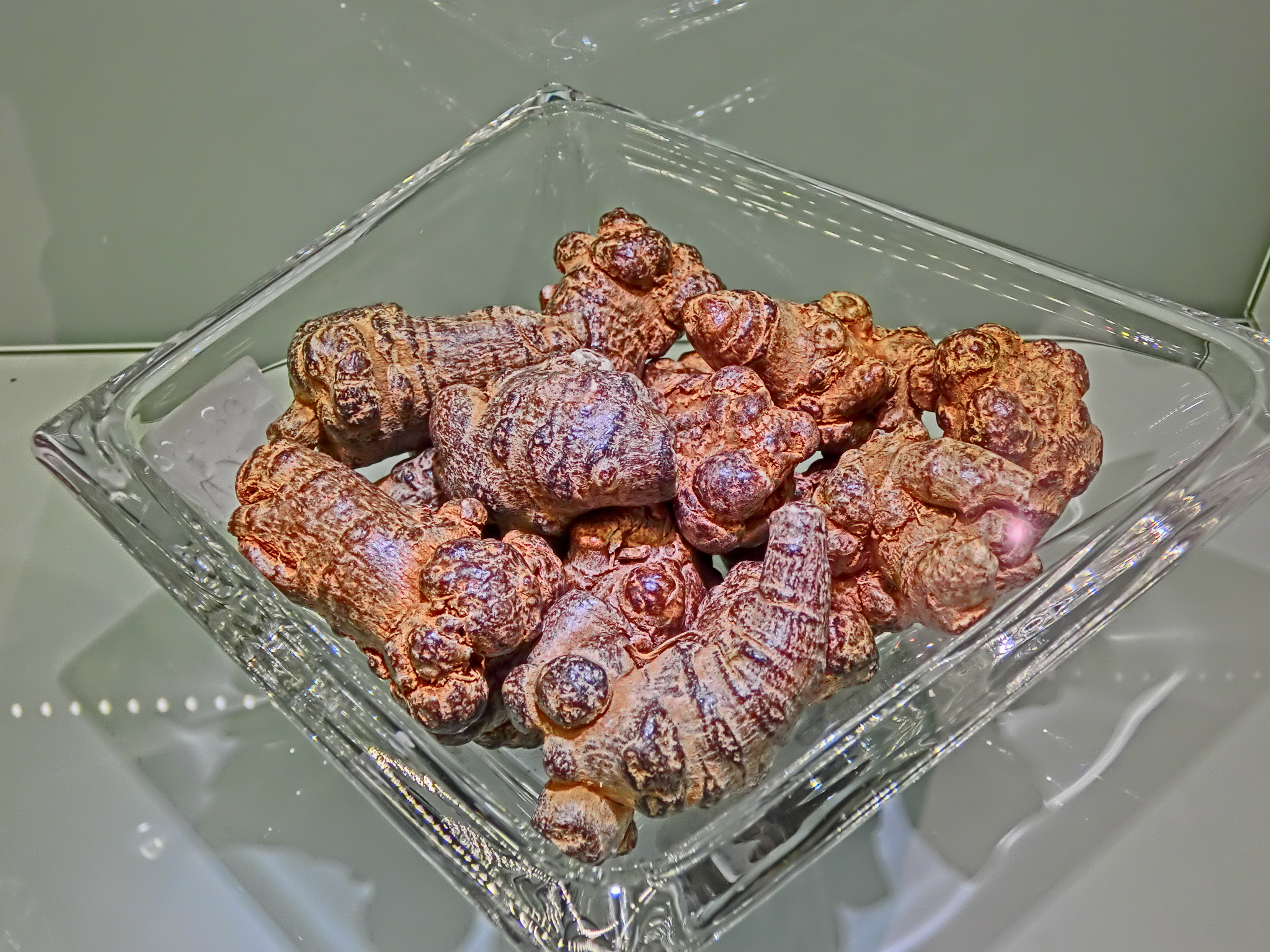 Shop in The Gateway, Tsim Sha Tsui, Hong Kong